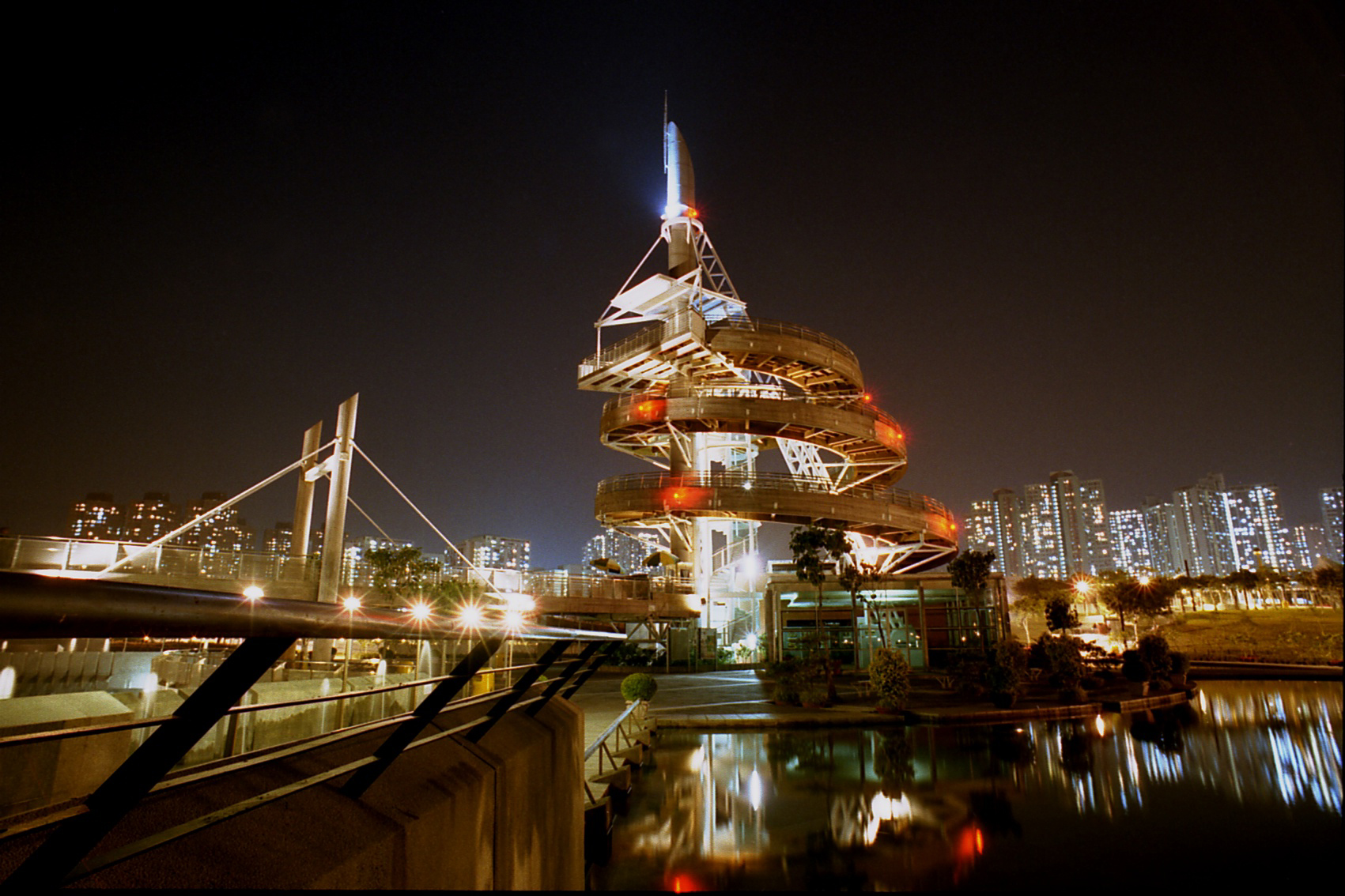 Spiral Lookout Tower at Tai Po Waterfront Park, Hong Kong. 香港大埔海濱公園內的回歸紀念塔。